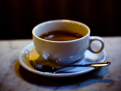 Grosser Mokka is viennese for "a large espresso"